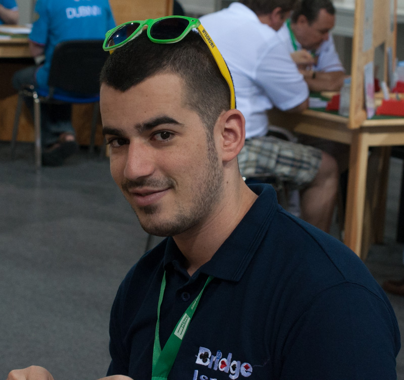 Lotan Fisher of Israel